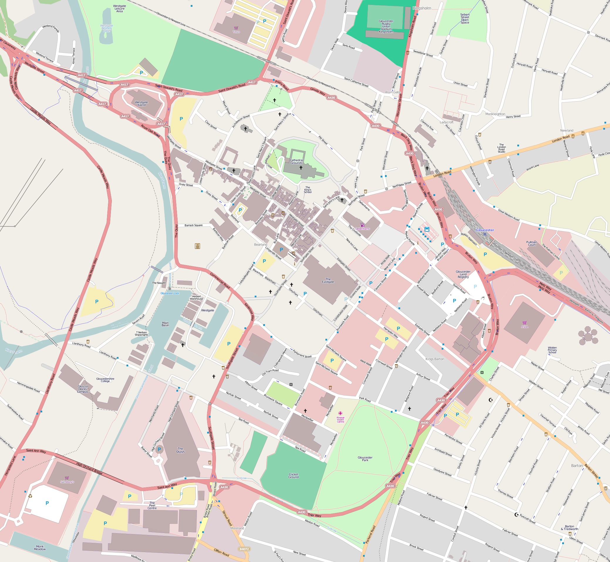 Map of Gloucester Geographic limits: N: 51.87217° S: 51.85624° W: -2.26048° E: -2.2325°